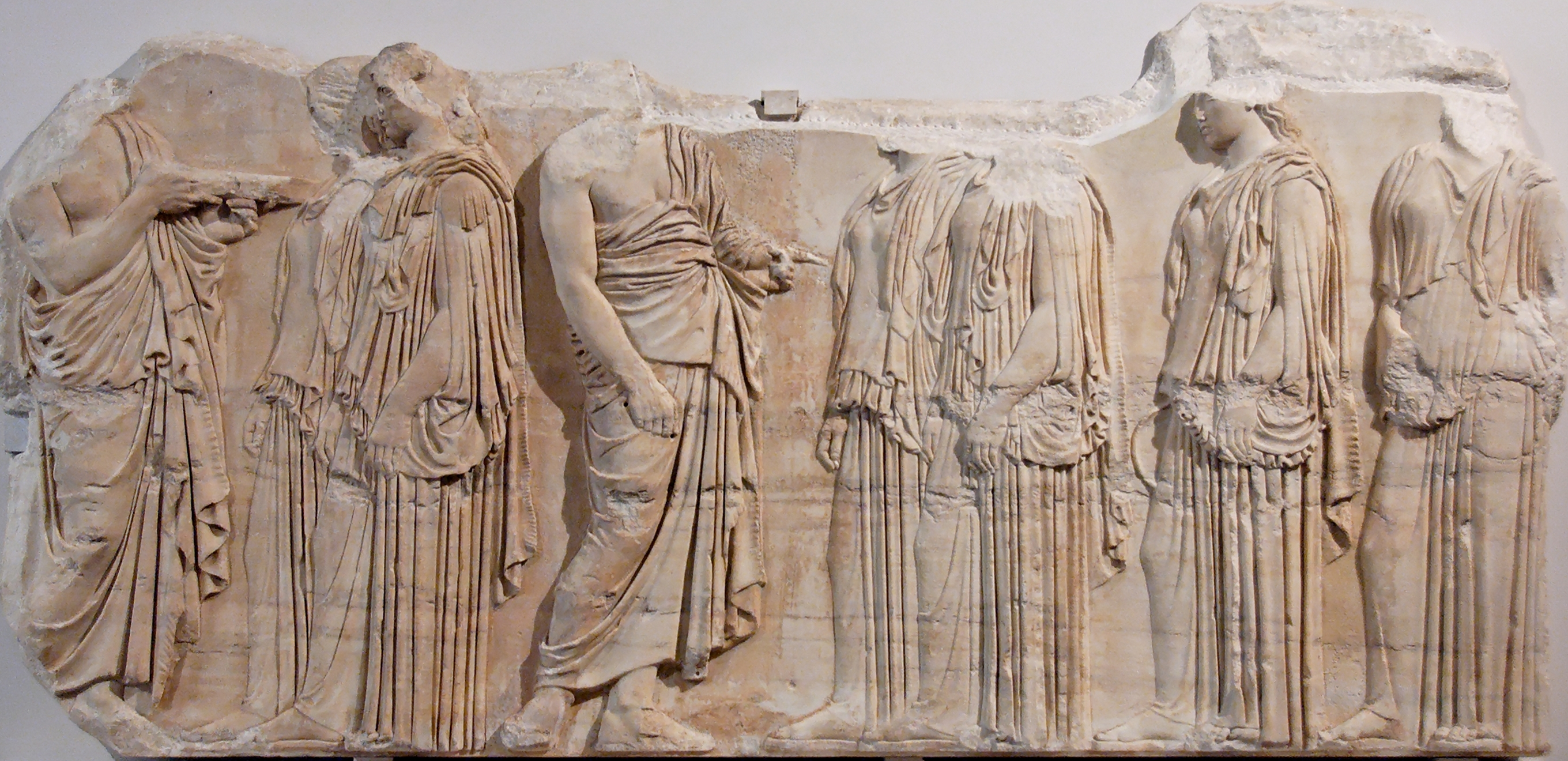 So-called Ergastinai (“weavers”) block, from the east frieze of the Parthenon in Athens. Traces of ancient polychromy, Pentelic marble, c. 445–435 B.C.